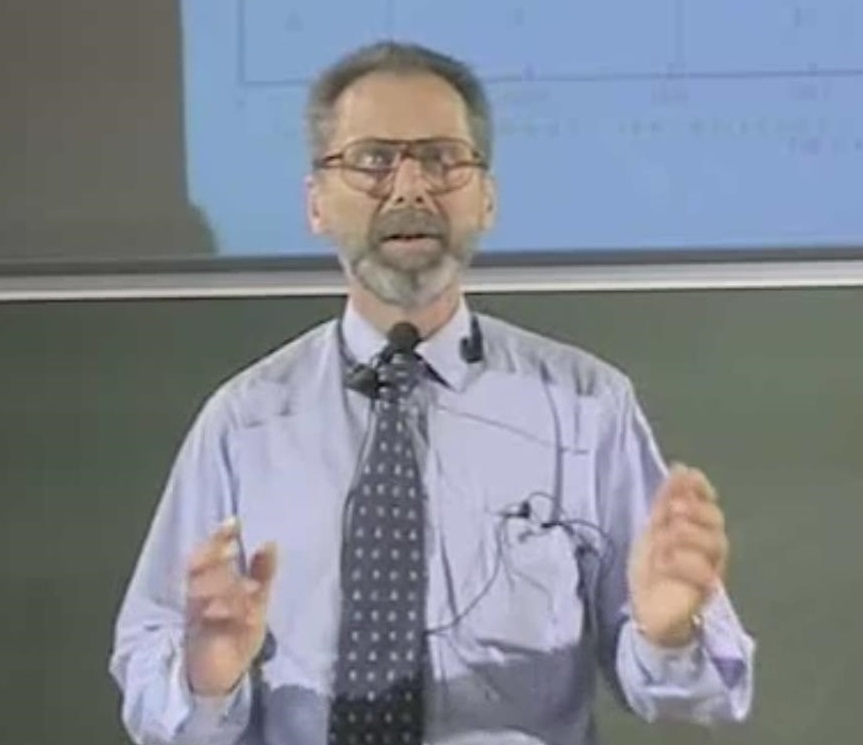 Yves Meyer